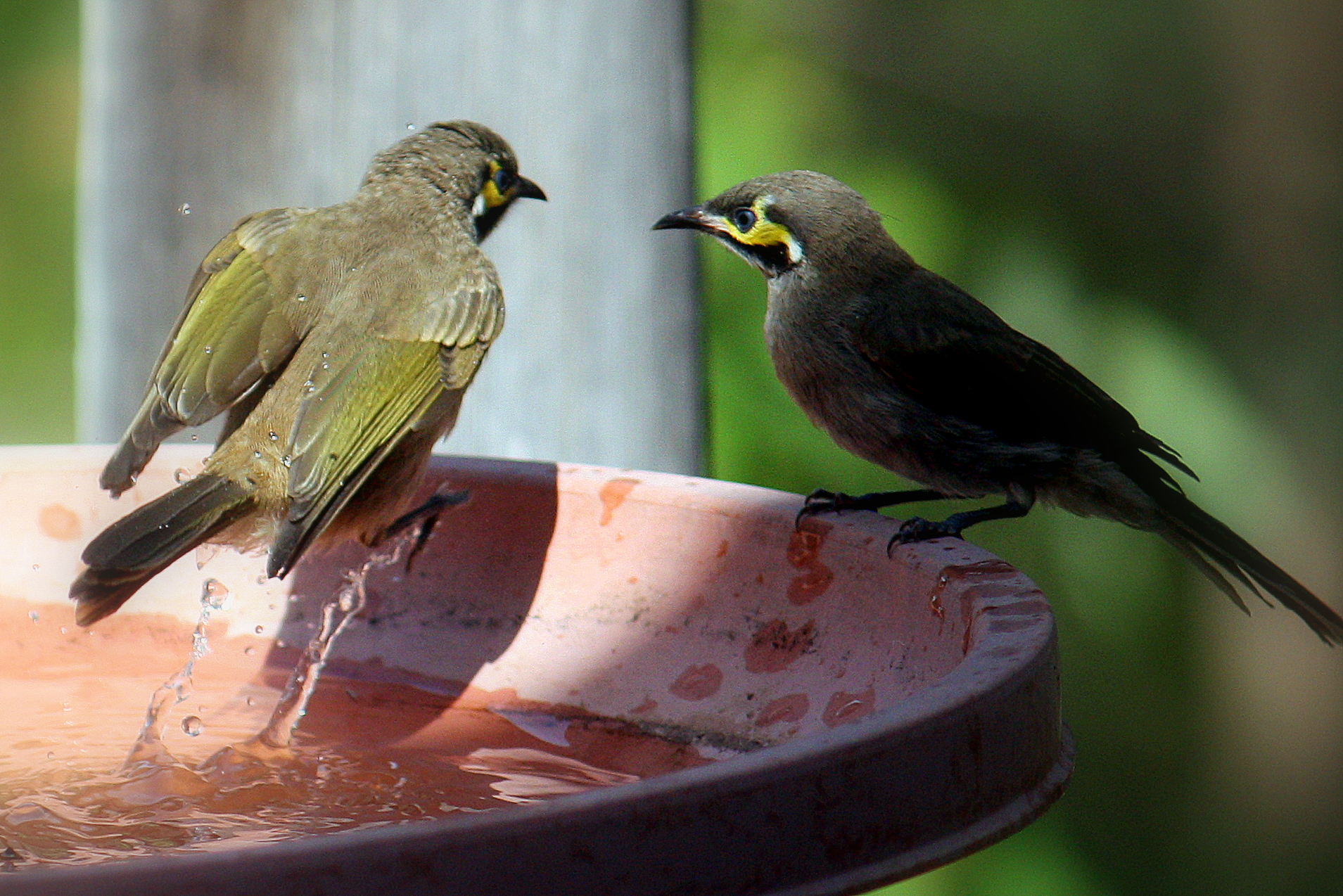 Yellow-faced Honeyeater on a bird bath in Laguna, New South Wales, Australia.